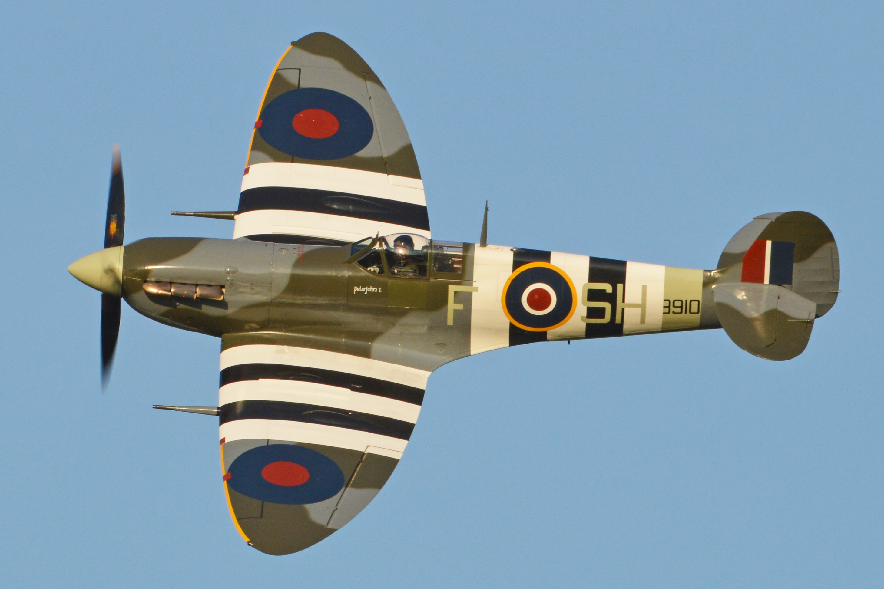 c/n CBAF.1061. Operated by the Battle of Britain Memorial Flight and currently wearing 64sqn markings and D-day invasion stripes. After her recent major rebuild she now has the correct 3-blade propeller and appropriate exhaust stubs. She is seen displaying at the Shuttleworth Collection Evening Airshow, Old Warden, Bedfordshire, UK. 17th June 2017.